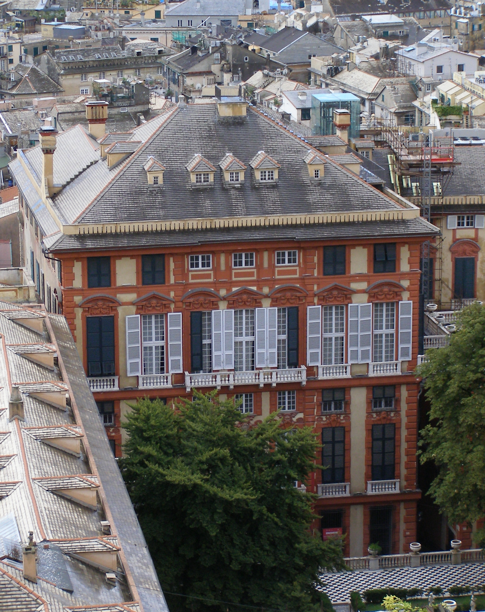 Genoa - Palazzo Rosso, view from Spianata Castelletto